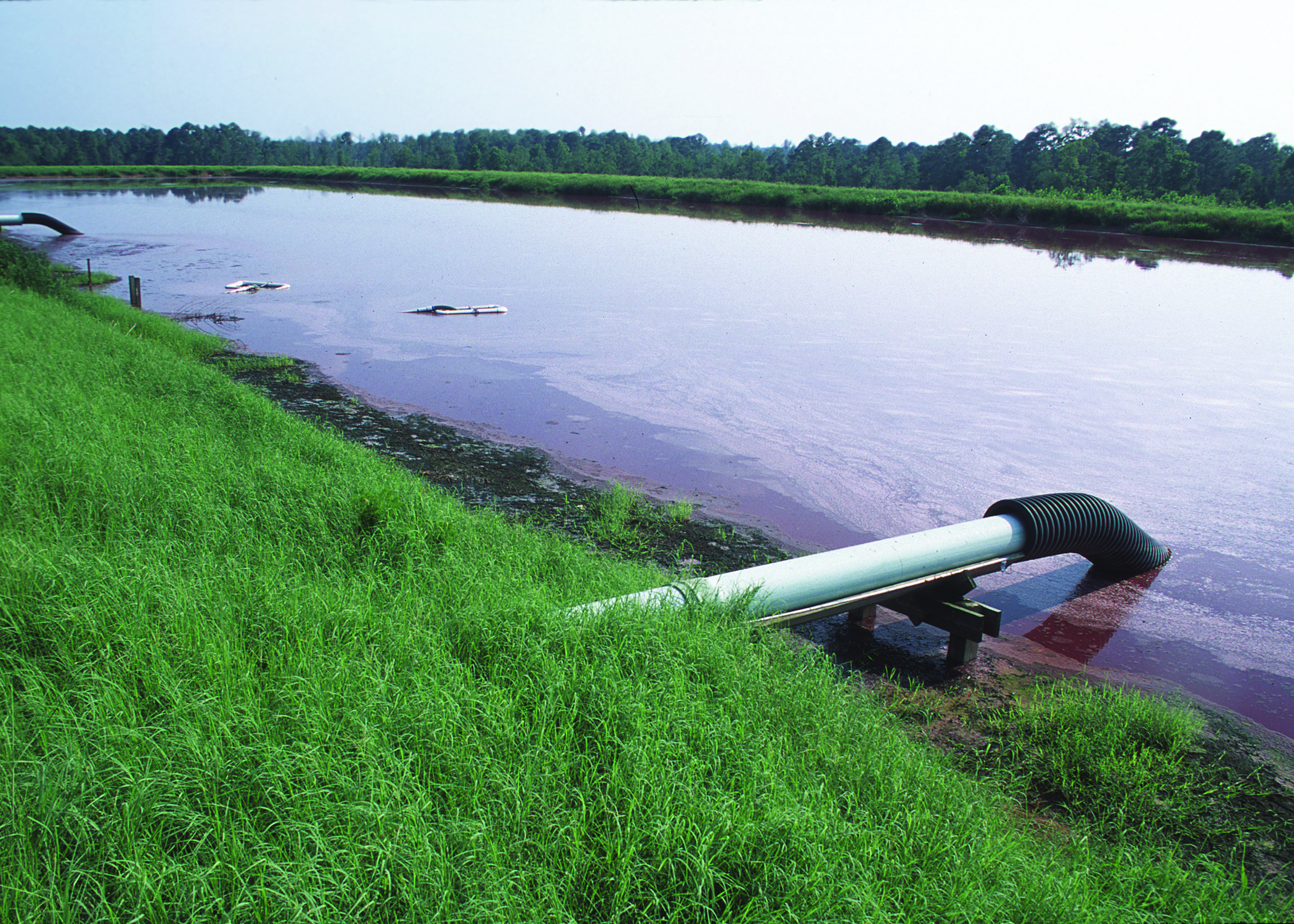 One measure used to reduce odor associated with animal waste lagoons is to pump the affluent directly under the water.